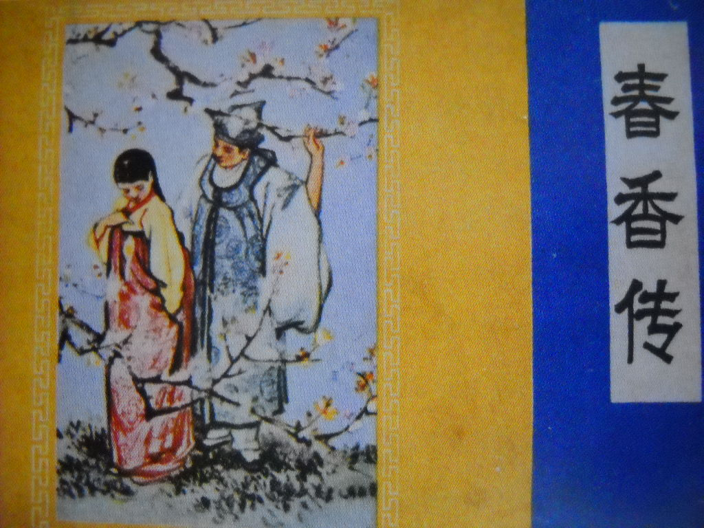 Cover Chunhyangjeon, Korean romance novel published in the early 20 C, captured from a book.